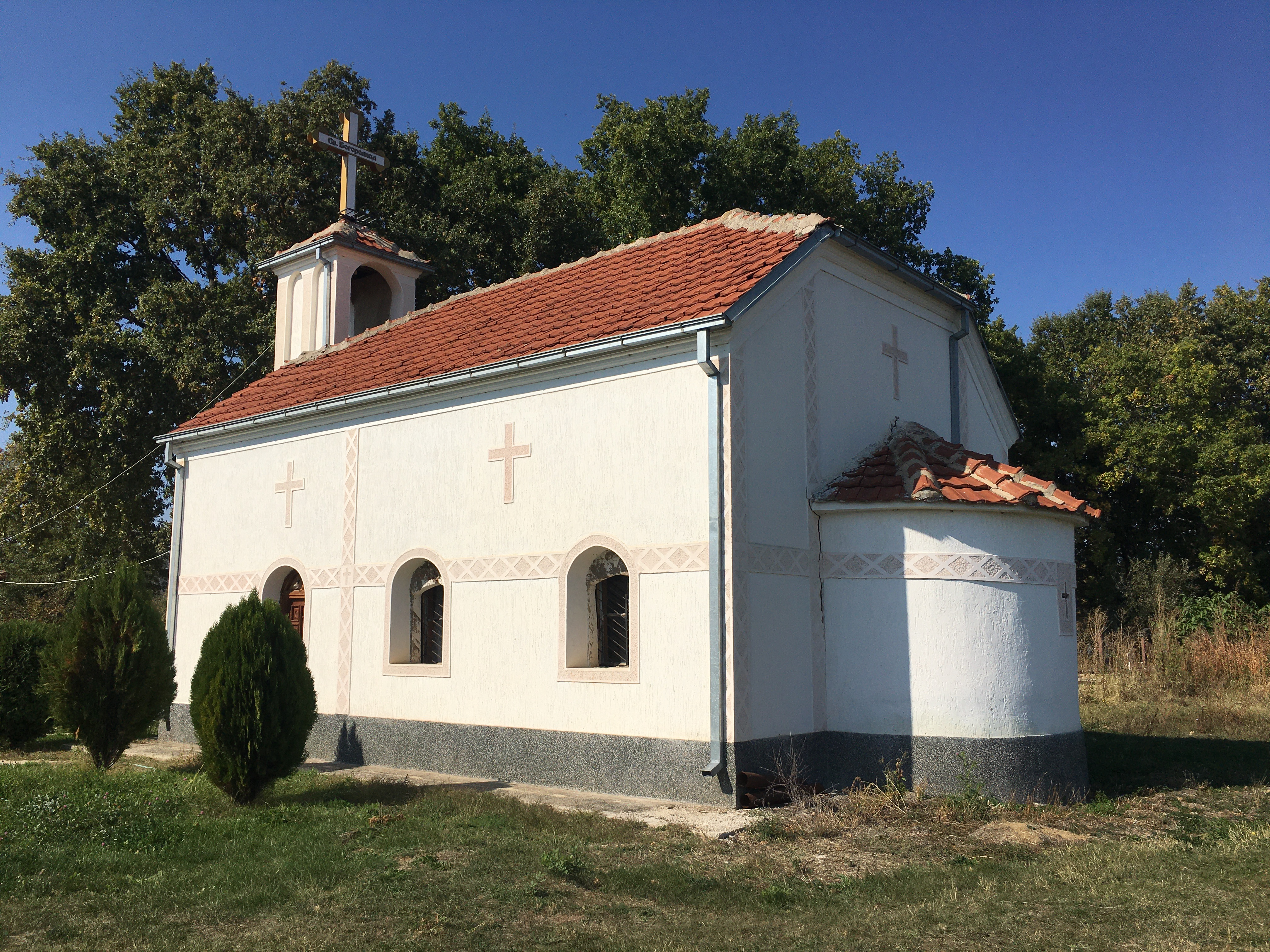 Church of the Theotokos in the village of Peštalevo